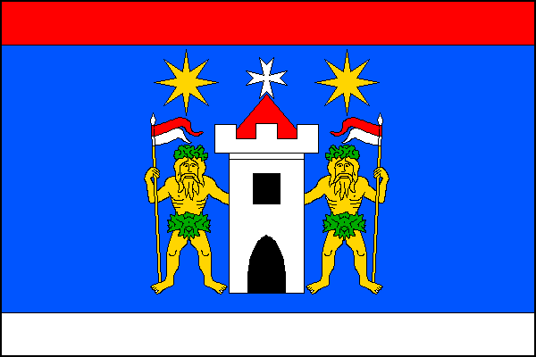 Municipal flag of Pičín , District Příbram, Czech Republic